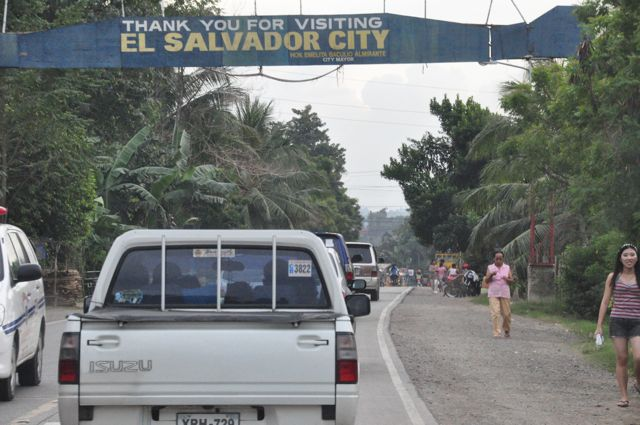 El Savador City Marker